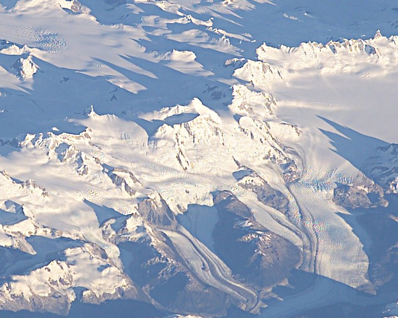 Cerro Arenales, Campo de Hielo Norte, Chile. Cropped from original image.